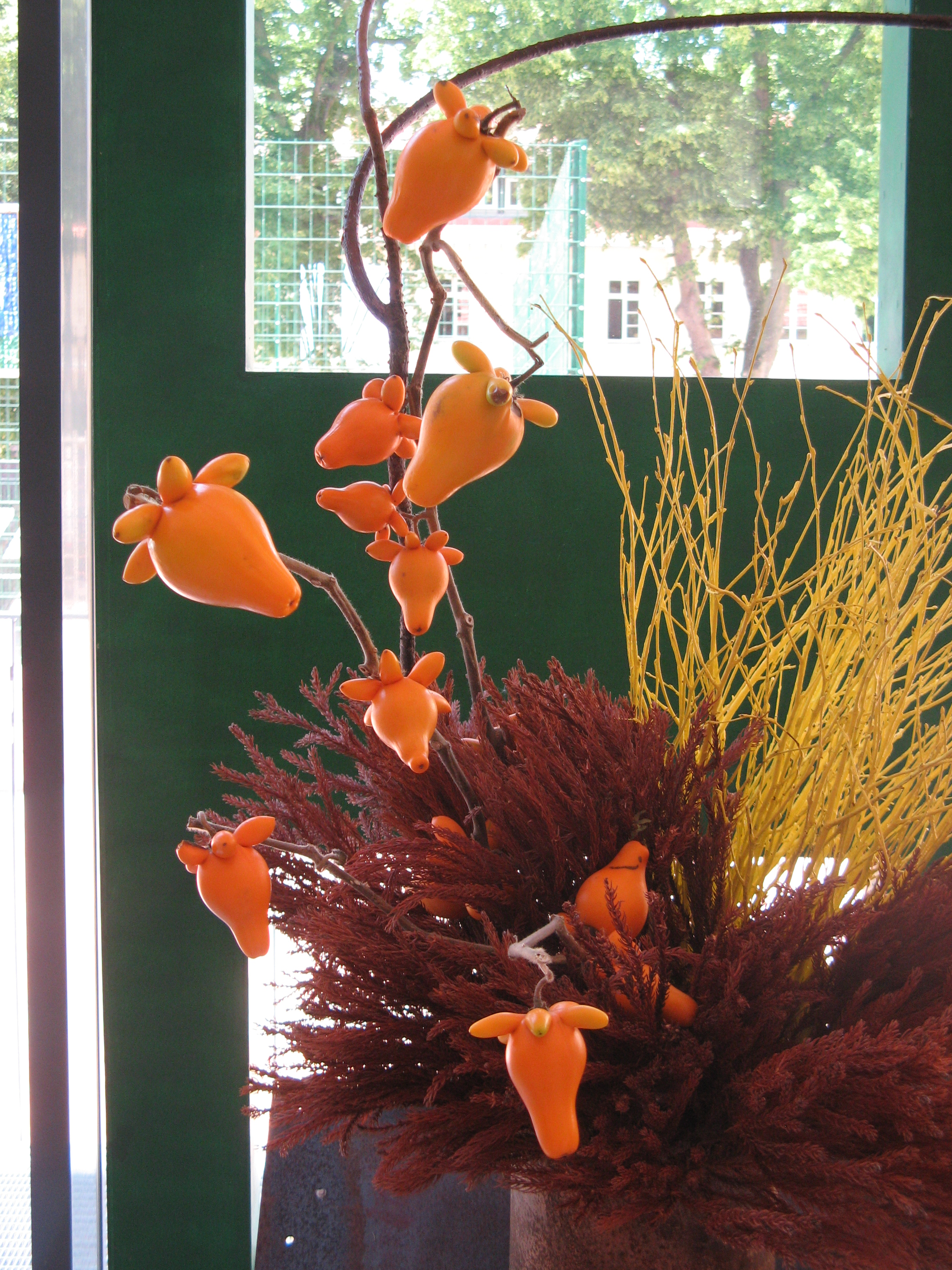 Supposedly a solanum mammosum